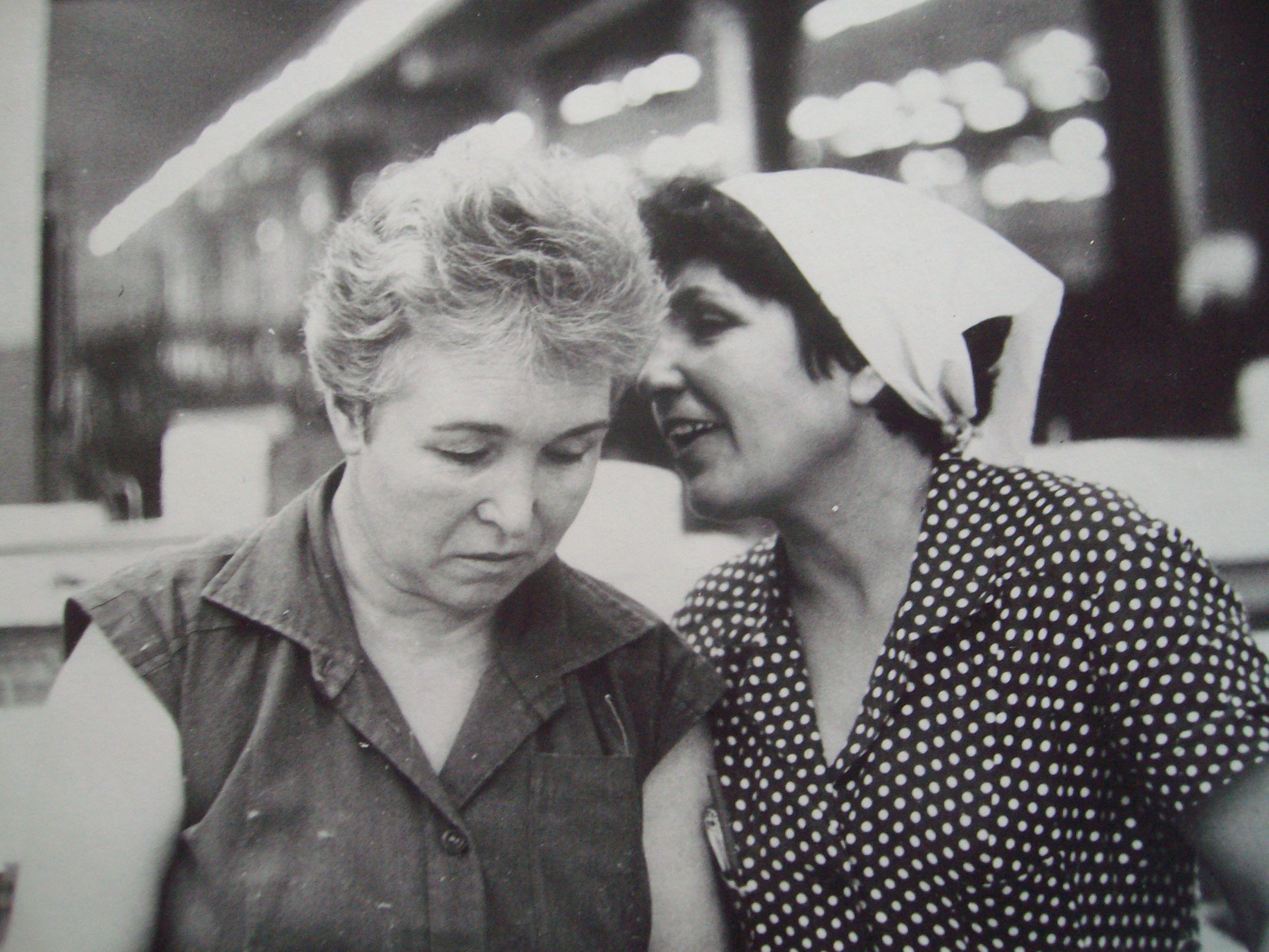 Weavers of the Barnaul cotton combine Tamara Zhuravlyov (at the left) and Dagmara Mironov (on the right)